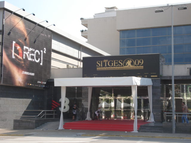 The principal place of the Festival Internacional de Cinema de Catalunya 2009